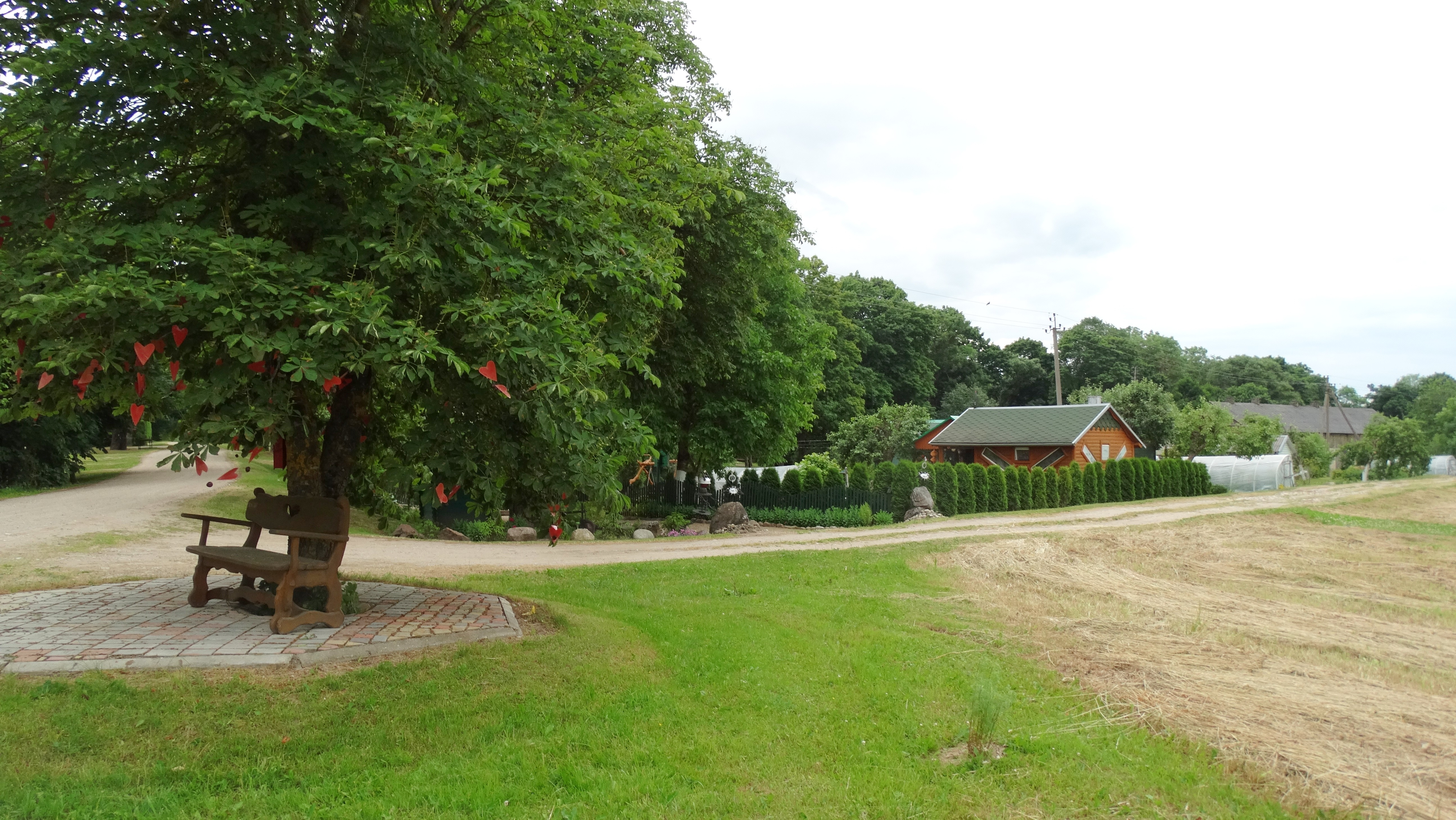 Biliūnai, Raseiniai district, Lithuania